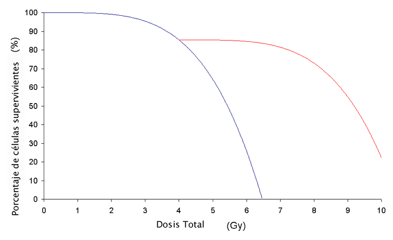 ( Tabla de la capacidad de las células de reparar los efectos nocivos de los rayos gamma) (The effect of self repair on the ability of gamma rays to kill cells.)